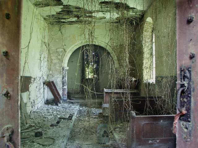 Inside the former parish church of St Peter, Low Toynton, Lincolnshire, looking east to the chancel. The chancel arch is late Norman but the rest of the church was rebuilt in 1811. The church was made redundant in October 1973 and passed into private ownership in 1977.